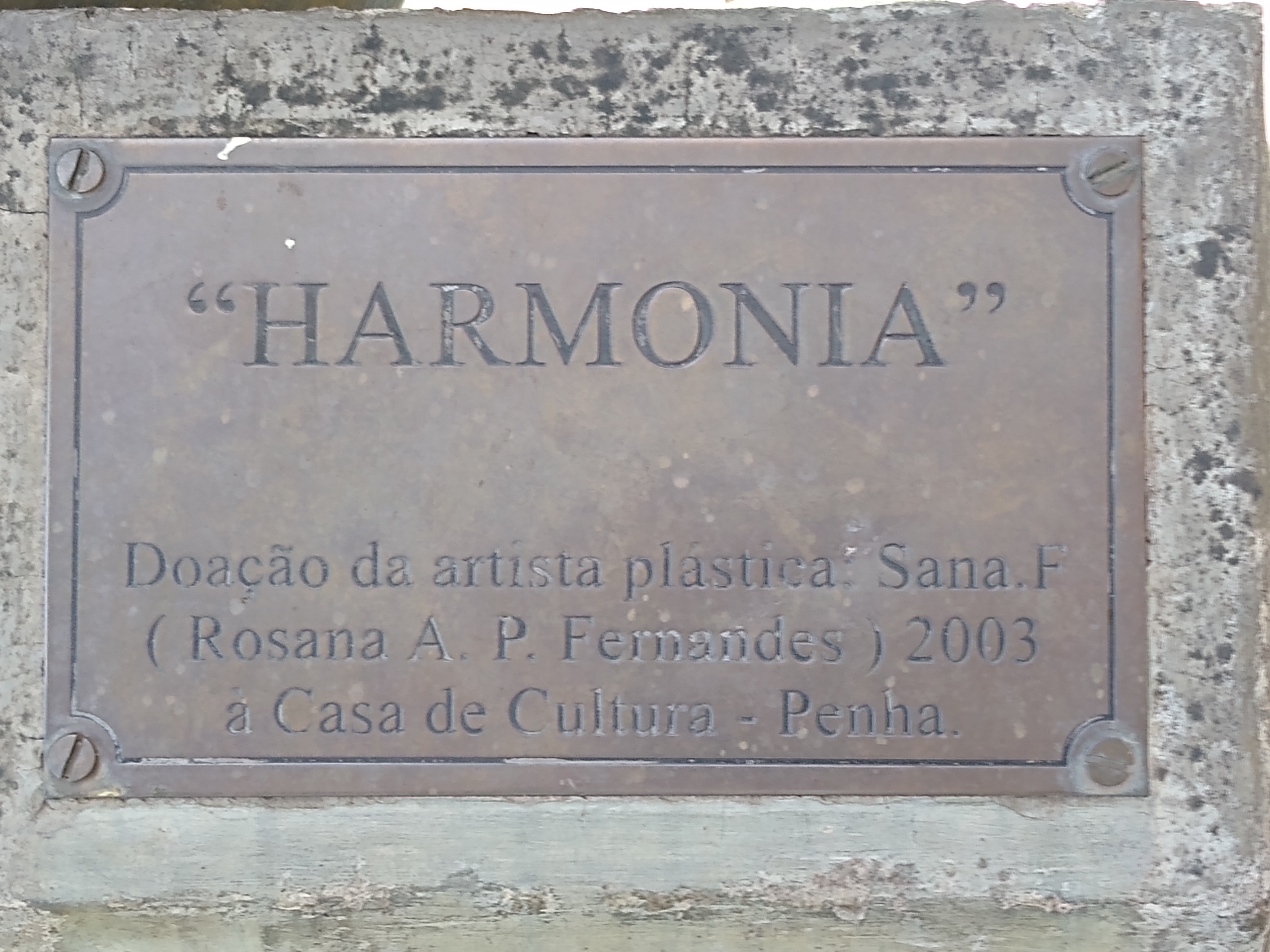 Chapa memorial escultura